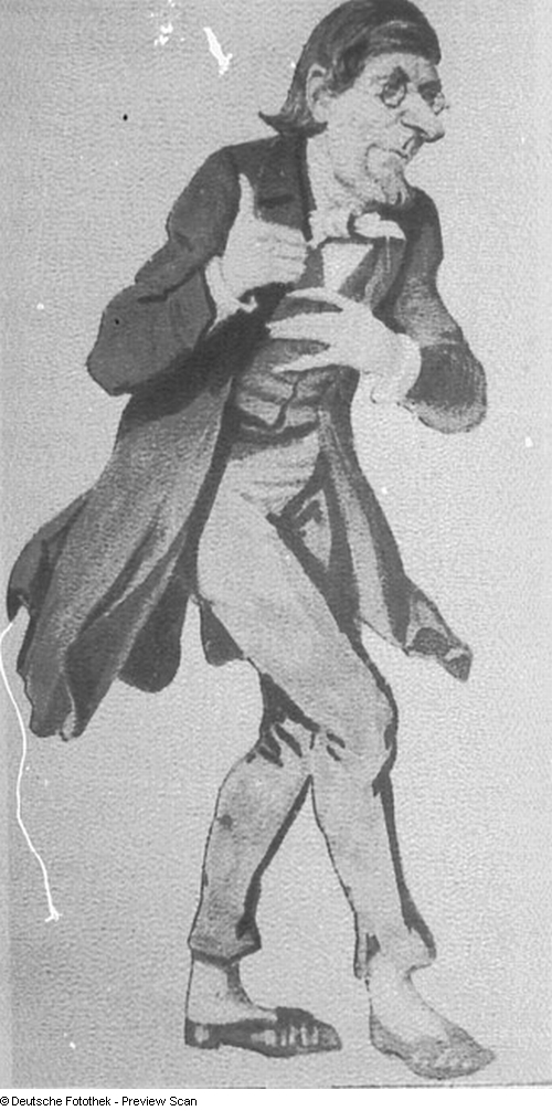 Karl Gustav Helbig (1808–1875), German historian: caricature